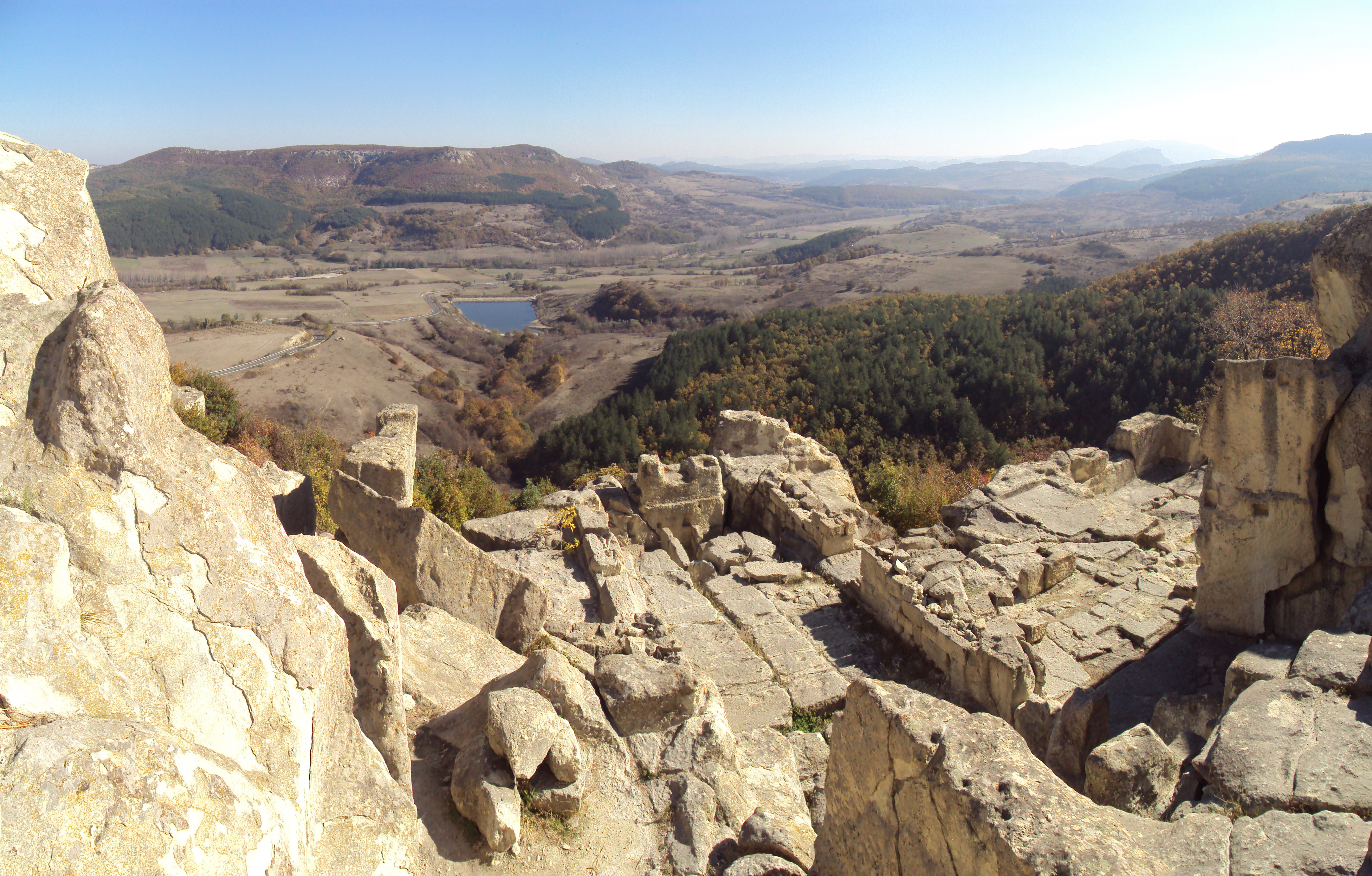 Perperikon, Kardzhali District, Bulgaria